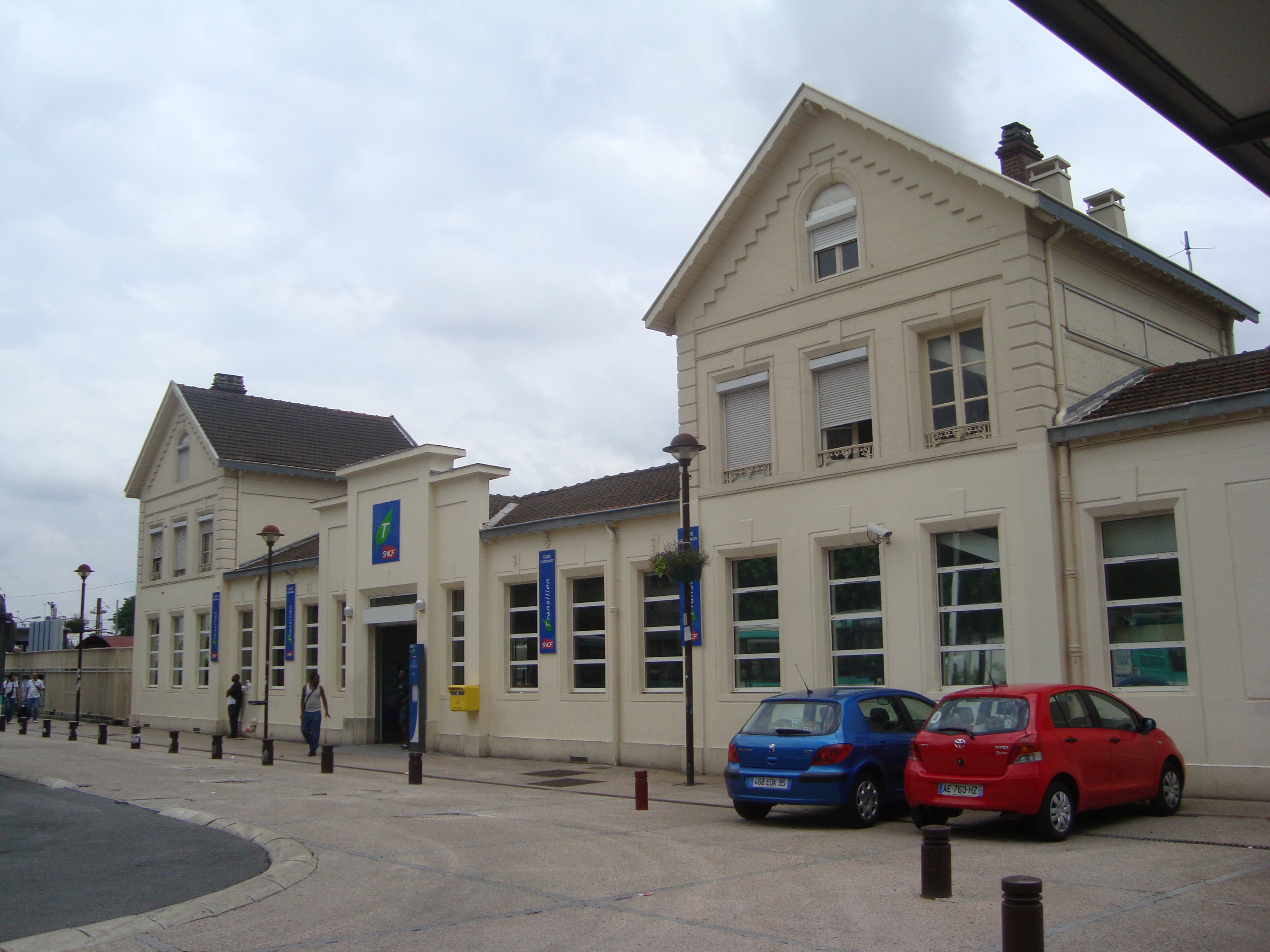 Exterior view of the renovated Gare du Bourget